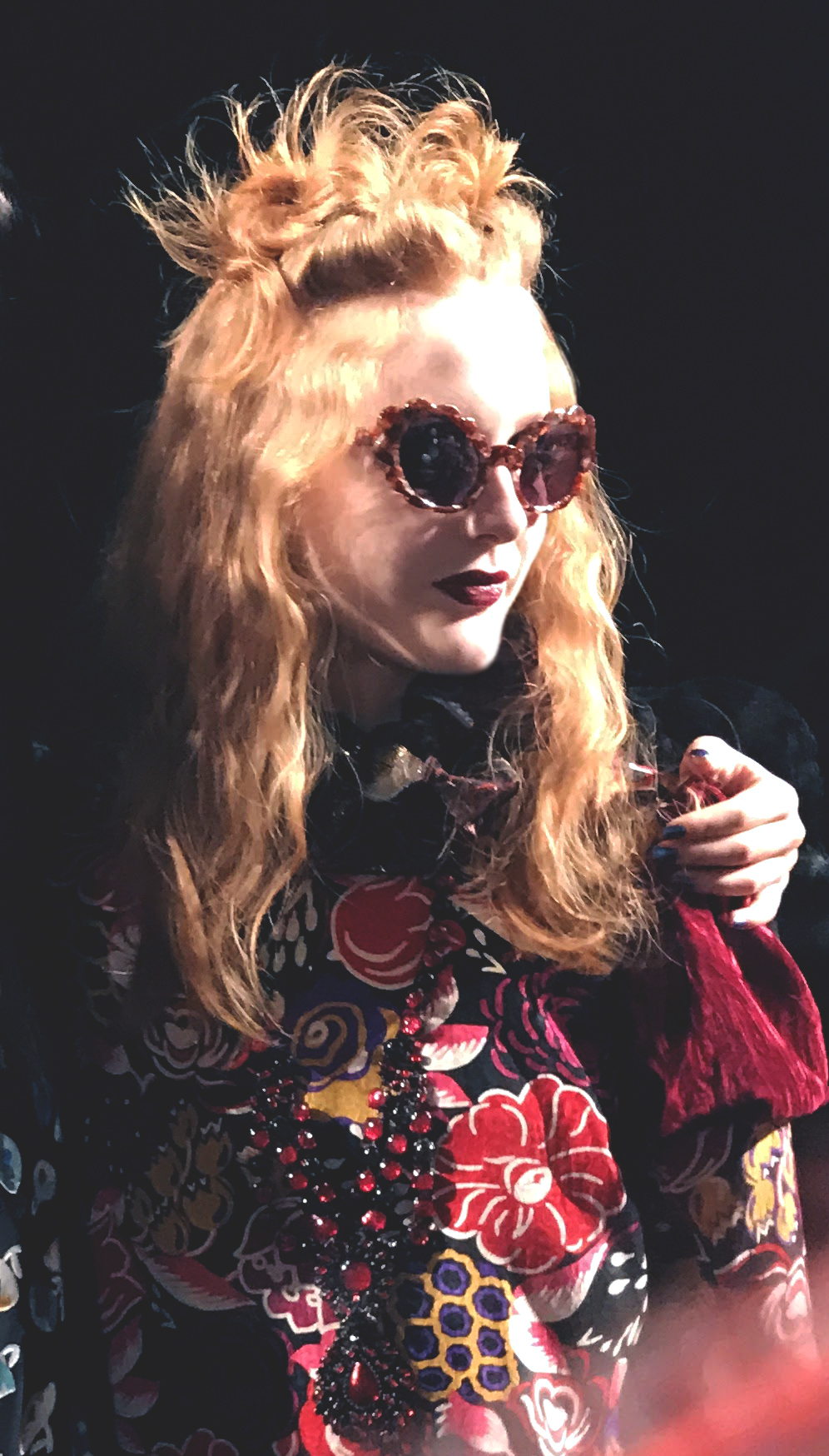 Hyun Ji Shin and Madison Stubbington backstage at the Anna Sui Fall Winter 2017 show at New York Fashion Week, Skylight Clarkston Square, February 15, 2017.